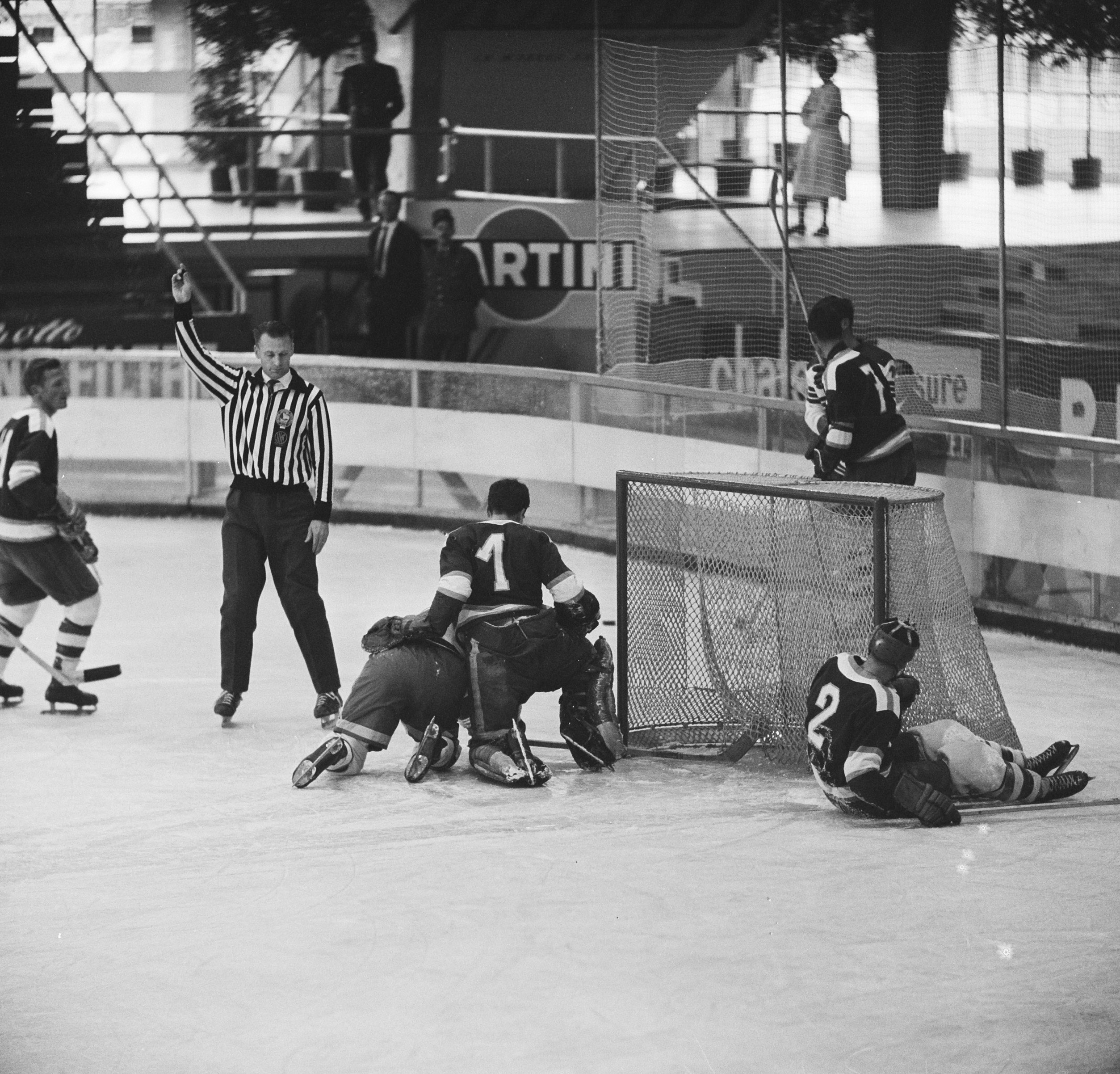 Nederlands vs Yugoslavia at 1961 IIHF World Championship Group C